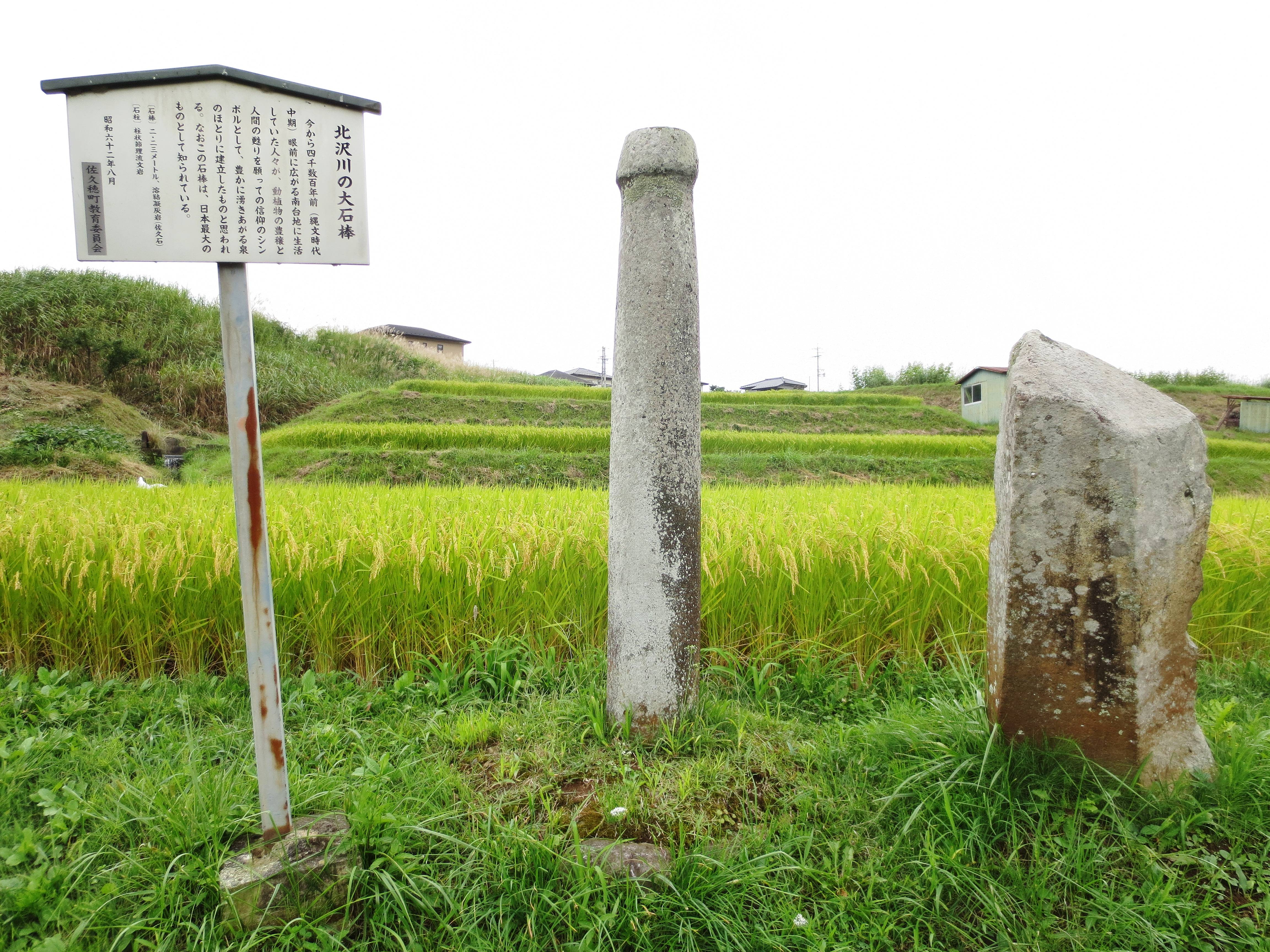 Kitazawagawa Daisekibo.